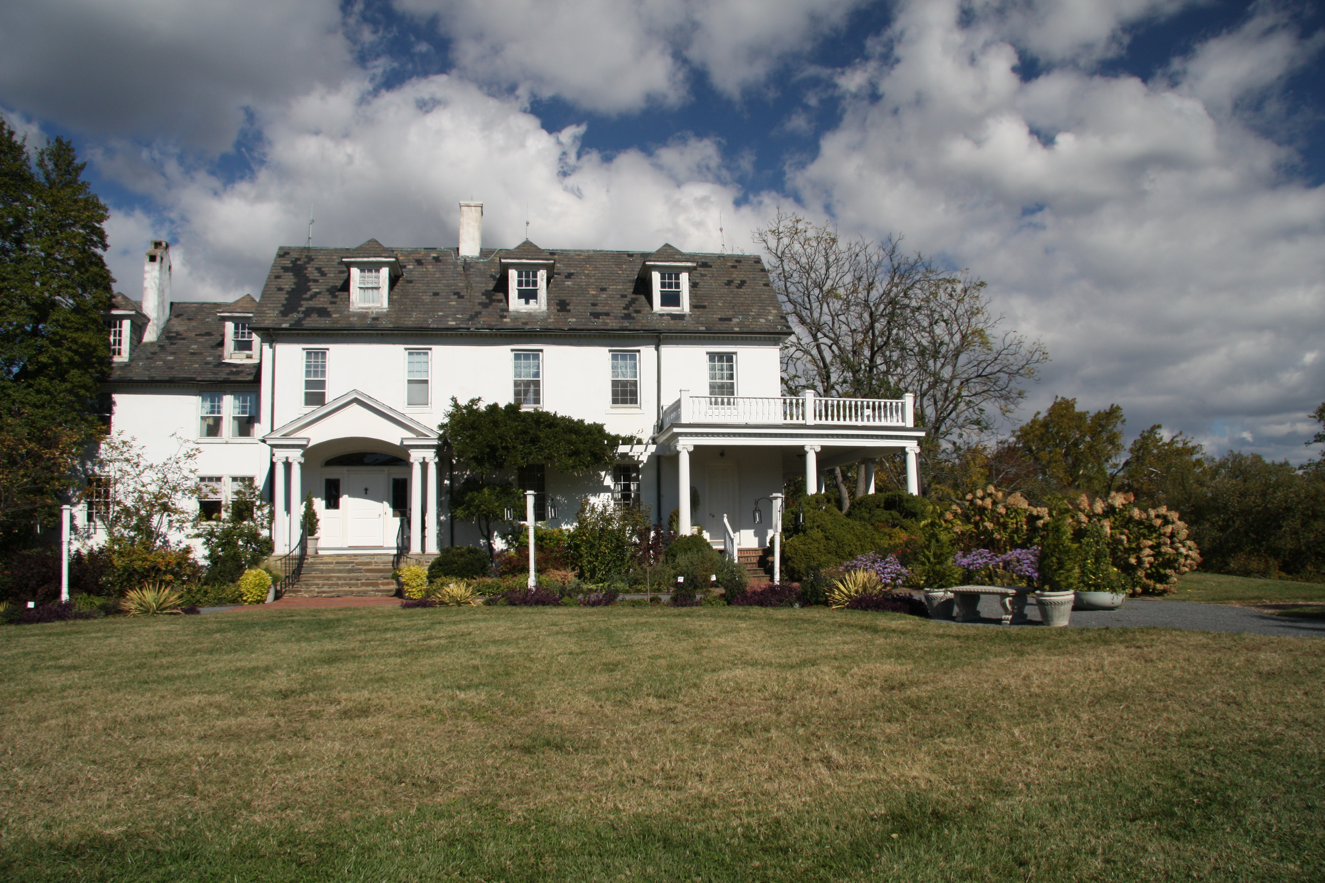 River Farm Early Fall 2010